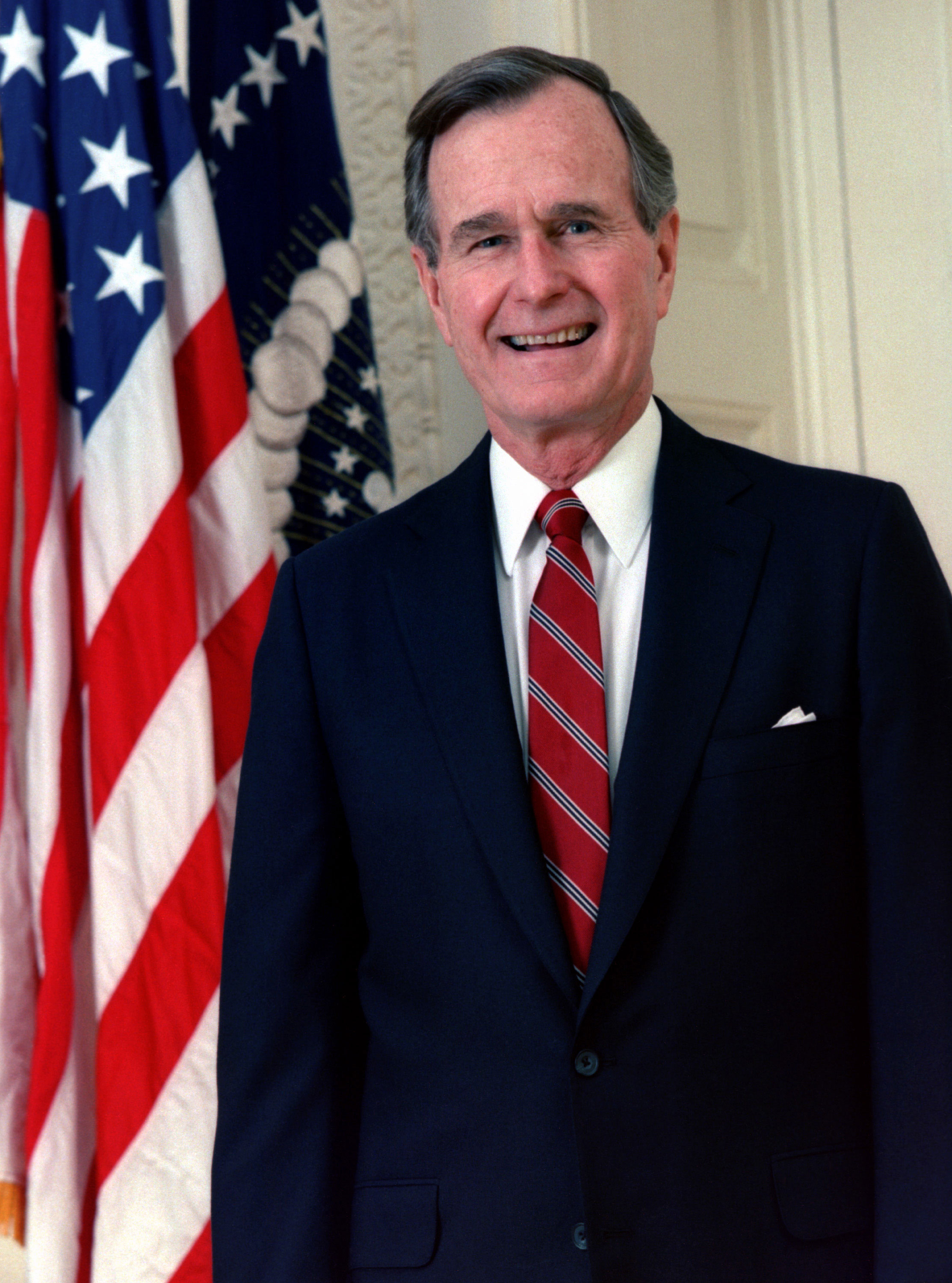 Official portrait of President George H. W. Bush